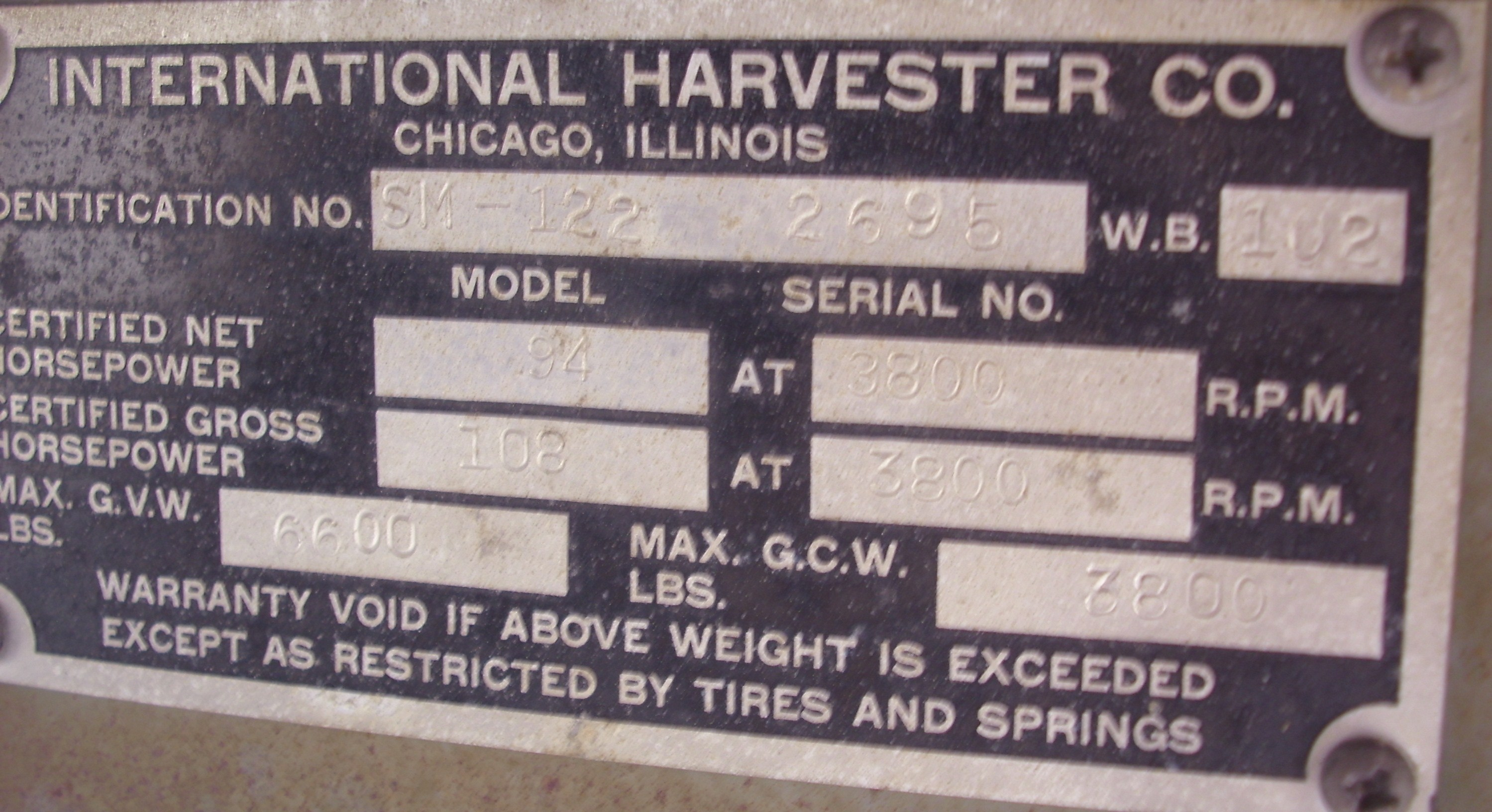 International Harvester manufacturer build plate with VIN